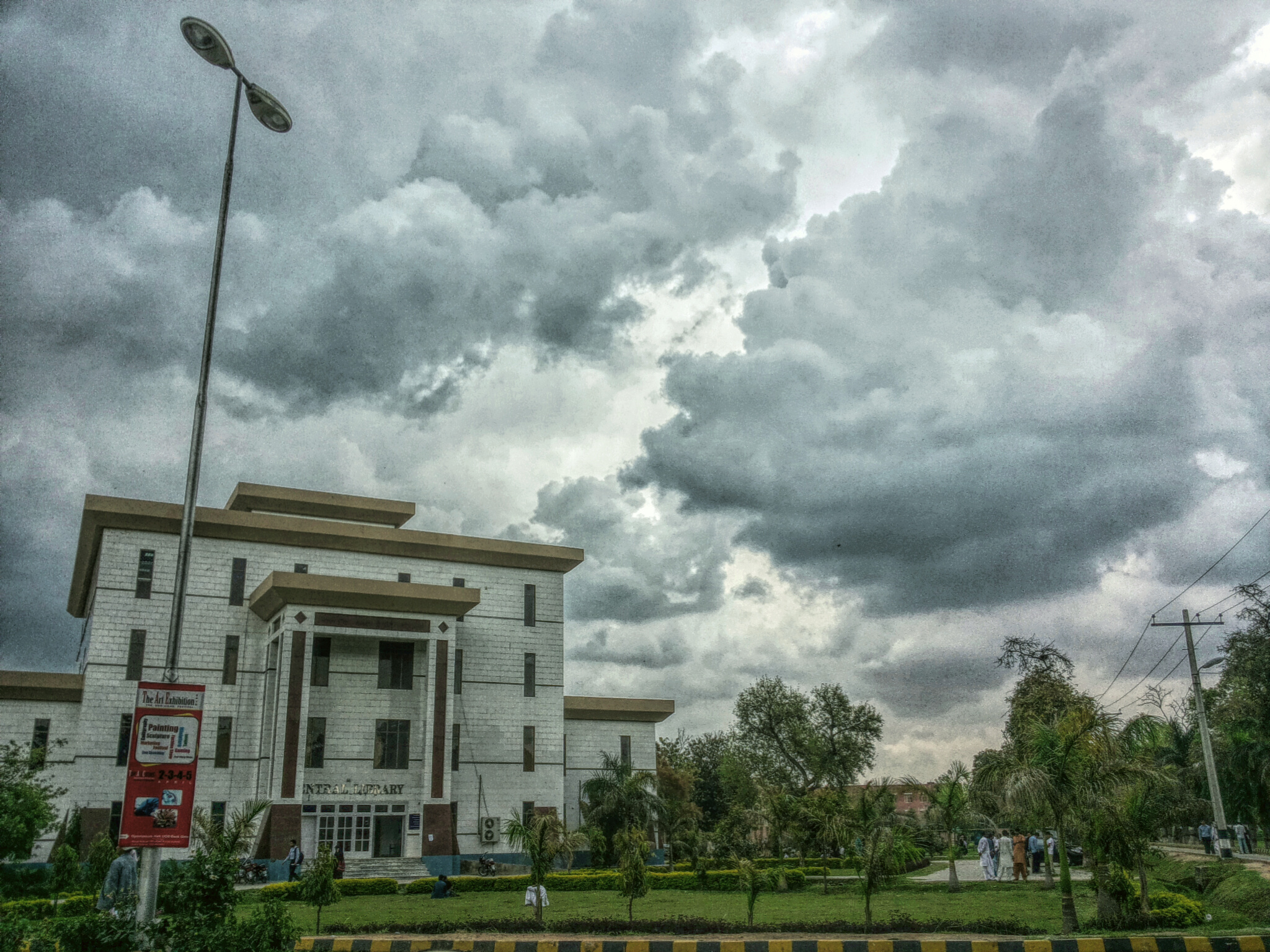 This is the central library of the University of Sargodha. I captured this picture during rainy days and also have applied a cloudy effect through Camera 360 app.